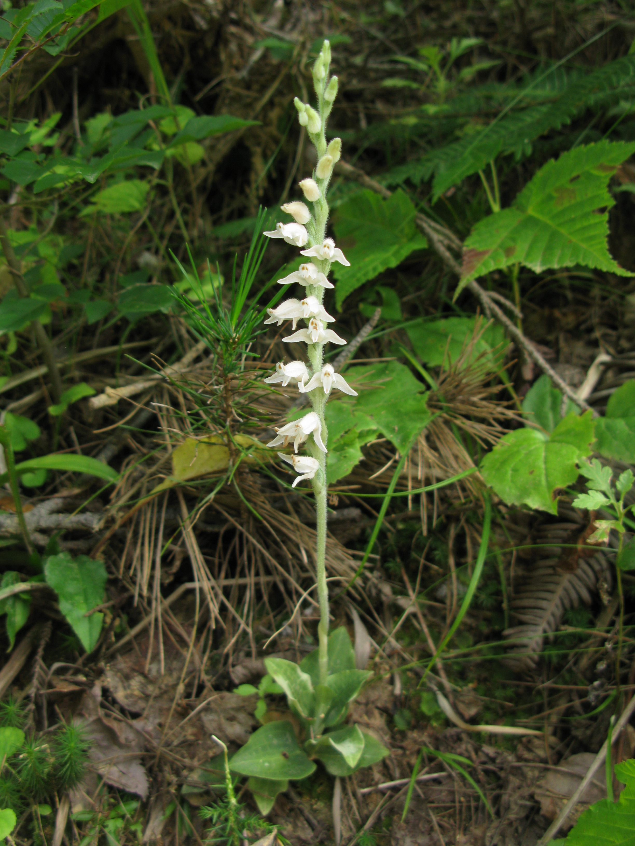 Goodyera schlechtendaliana, Fukushima city, Fukushima pref., Japan